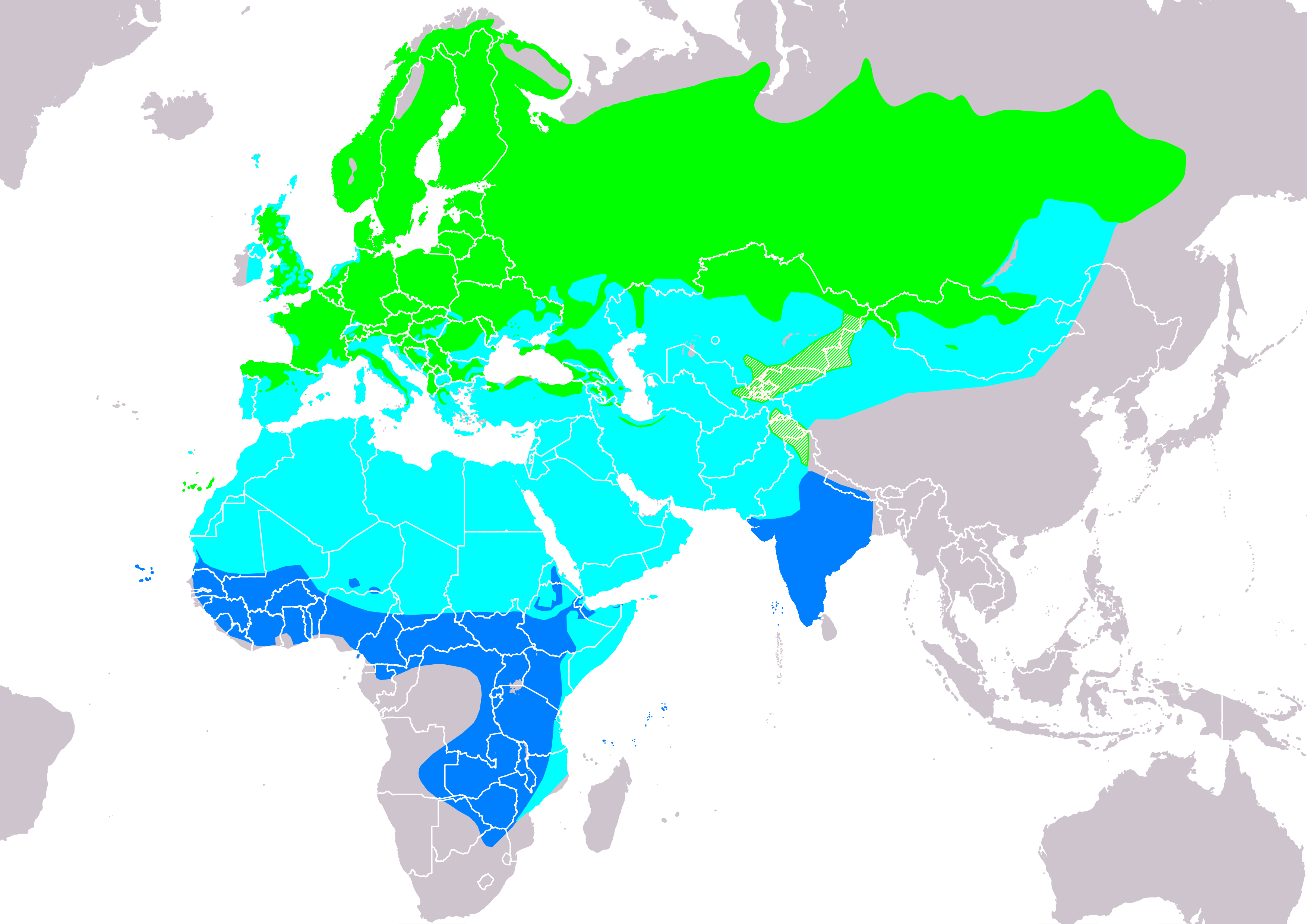 Map of tre pipis (Anthus trivialis) according to IUCN version 2018.2 , Legend: Extant, breeding (#00FF00), Extant, passage (#00FFFF), Extant, non-breeding (#007FFF)